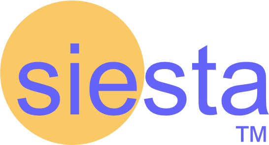 SIESTA logo